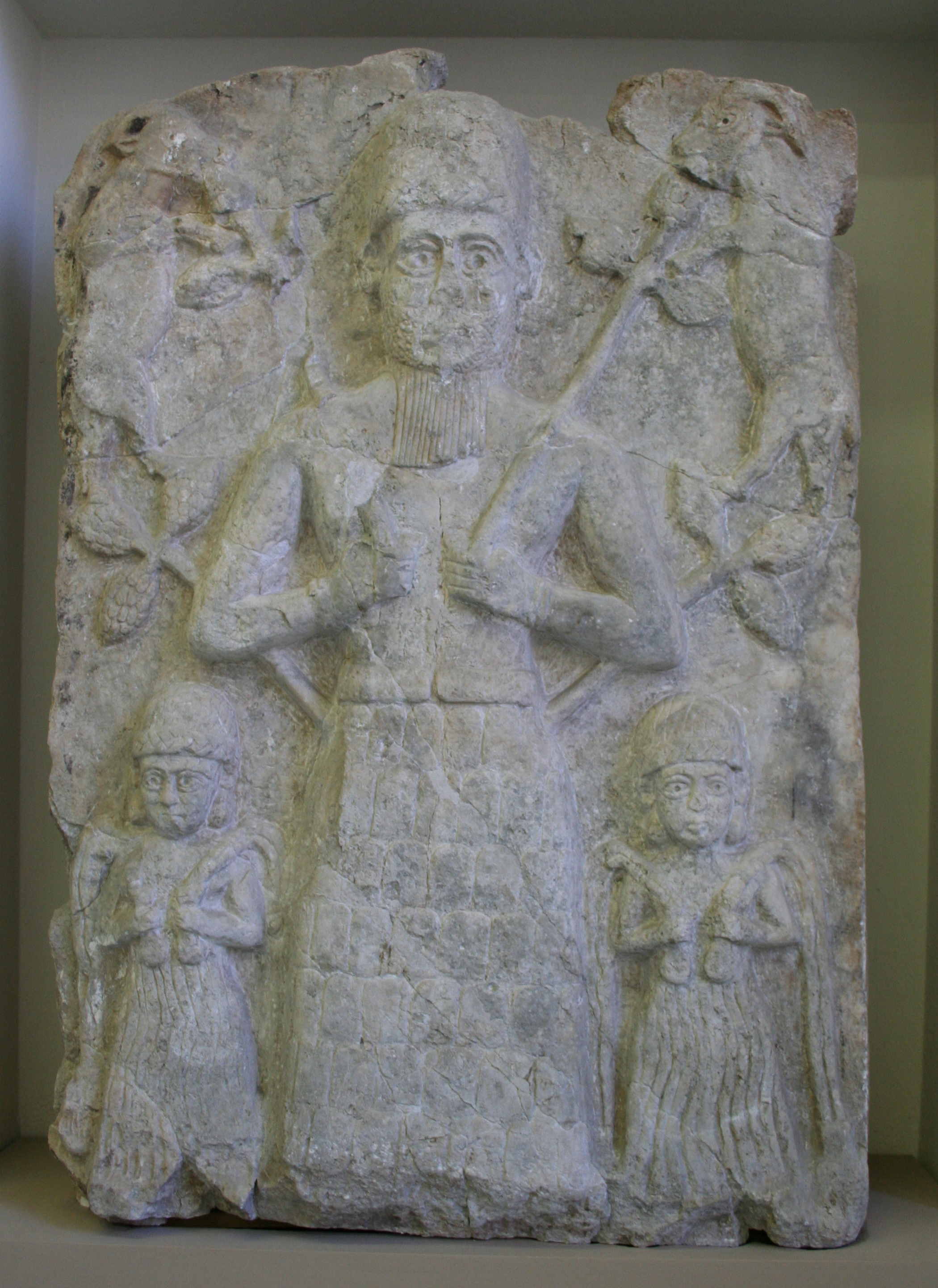 Vorderasiatisches Museum (Near East Museum), Berlin